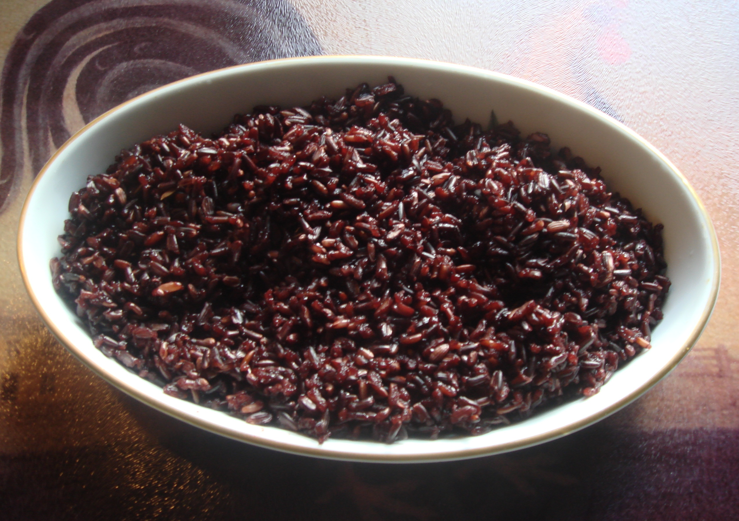 Black rice